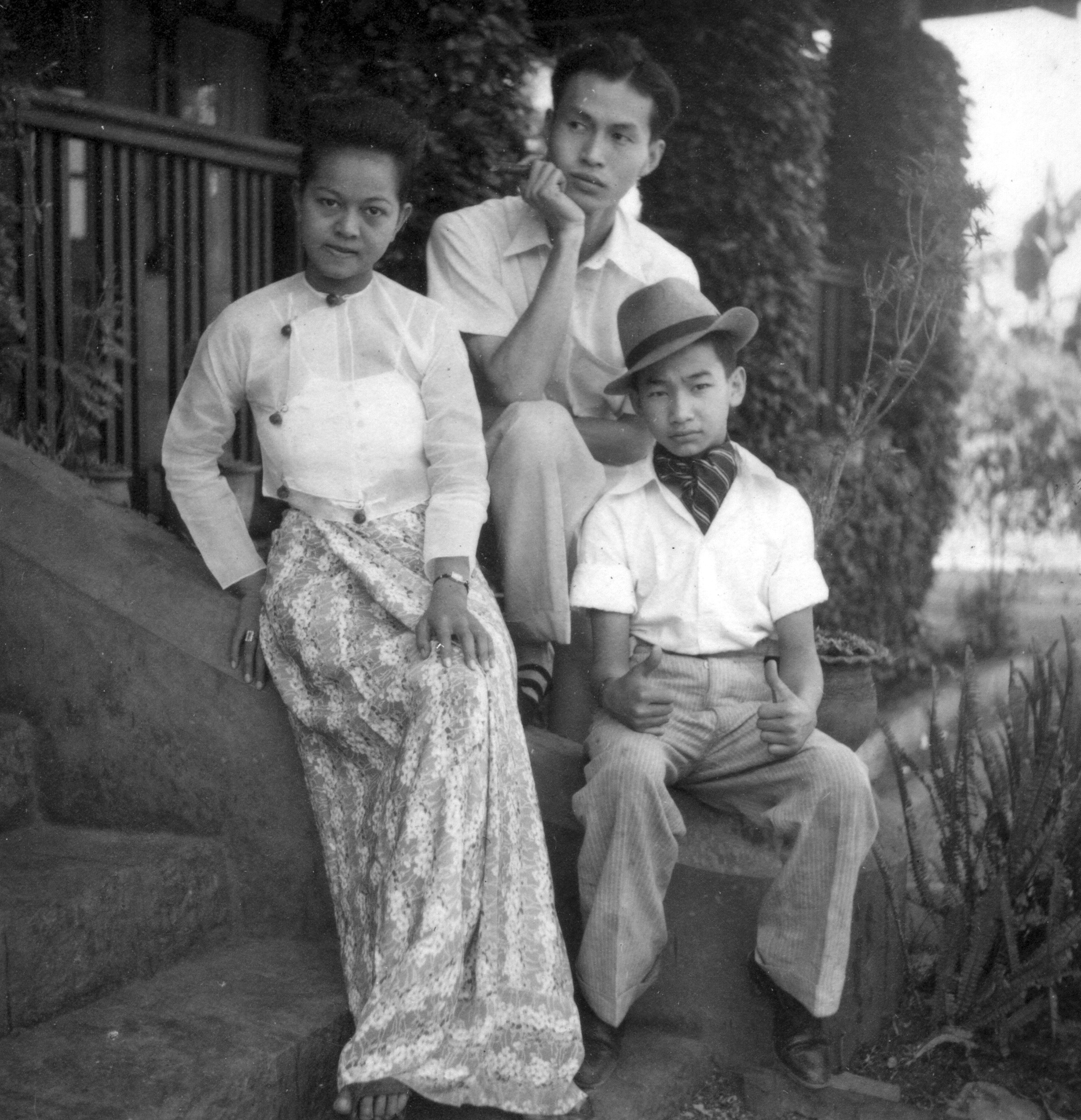 Sao Saimong, his brother Sao Sai Long, and Mi Mi Khaing